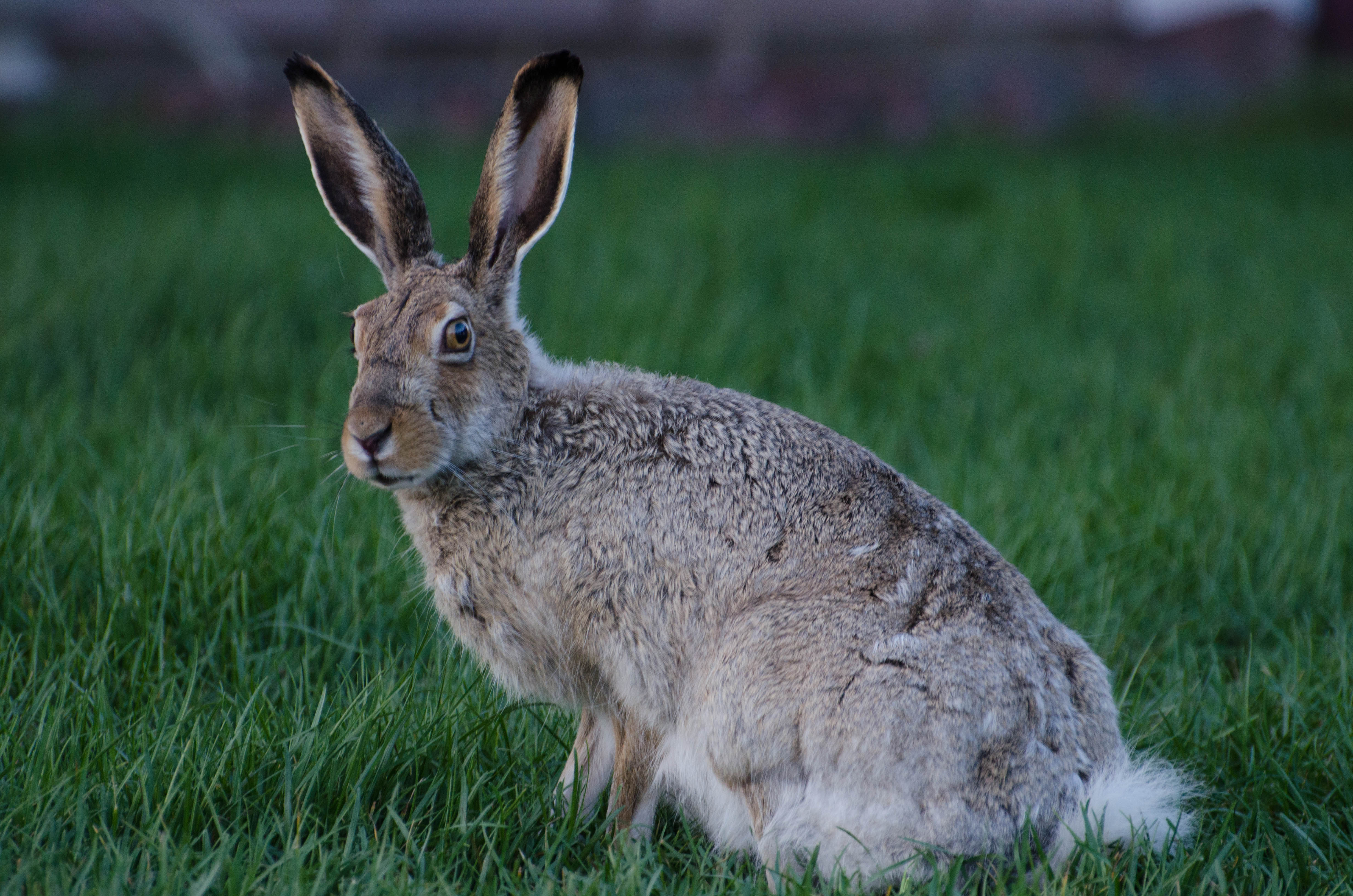 White-tailed jackrabbit in Edmonton, Alberta. May 30, 2014